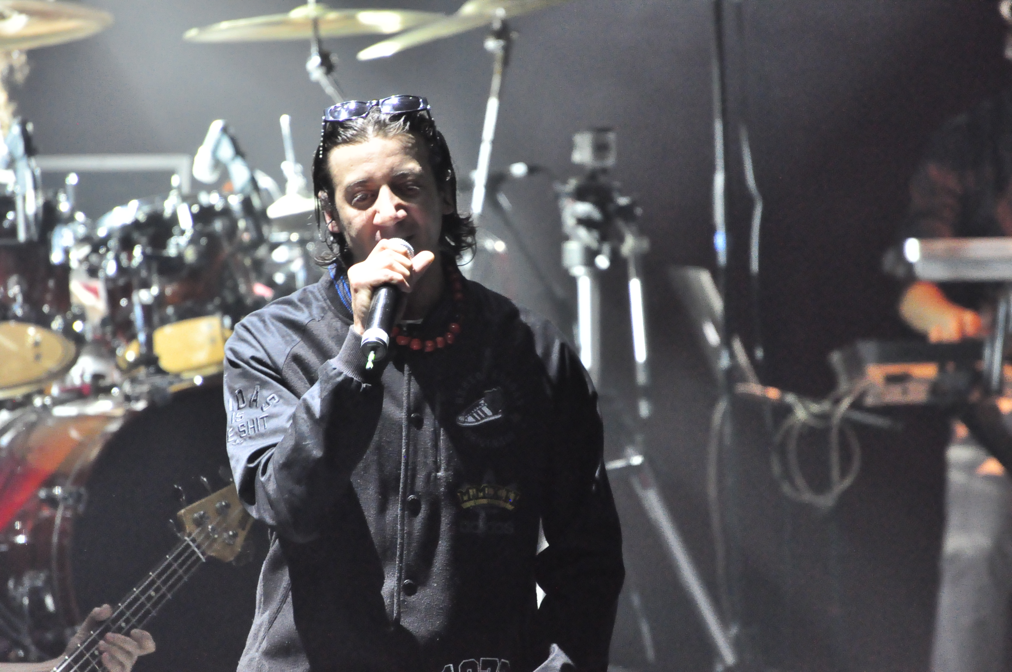 Los Tetas performing in Santiago, 2011.